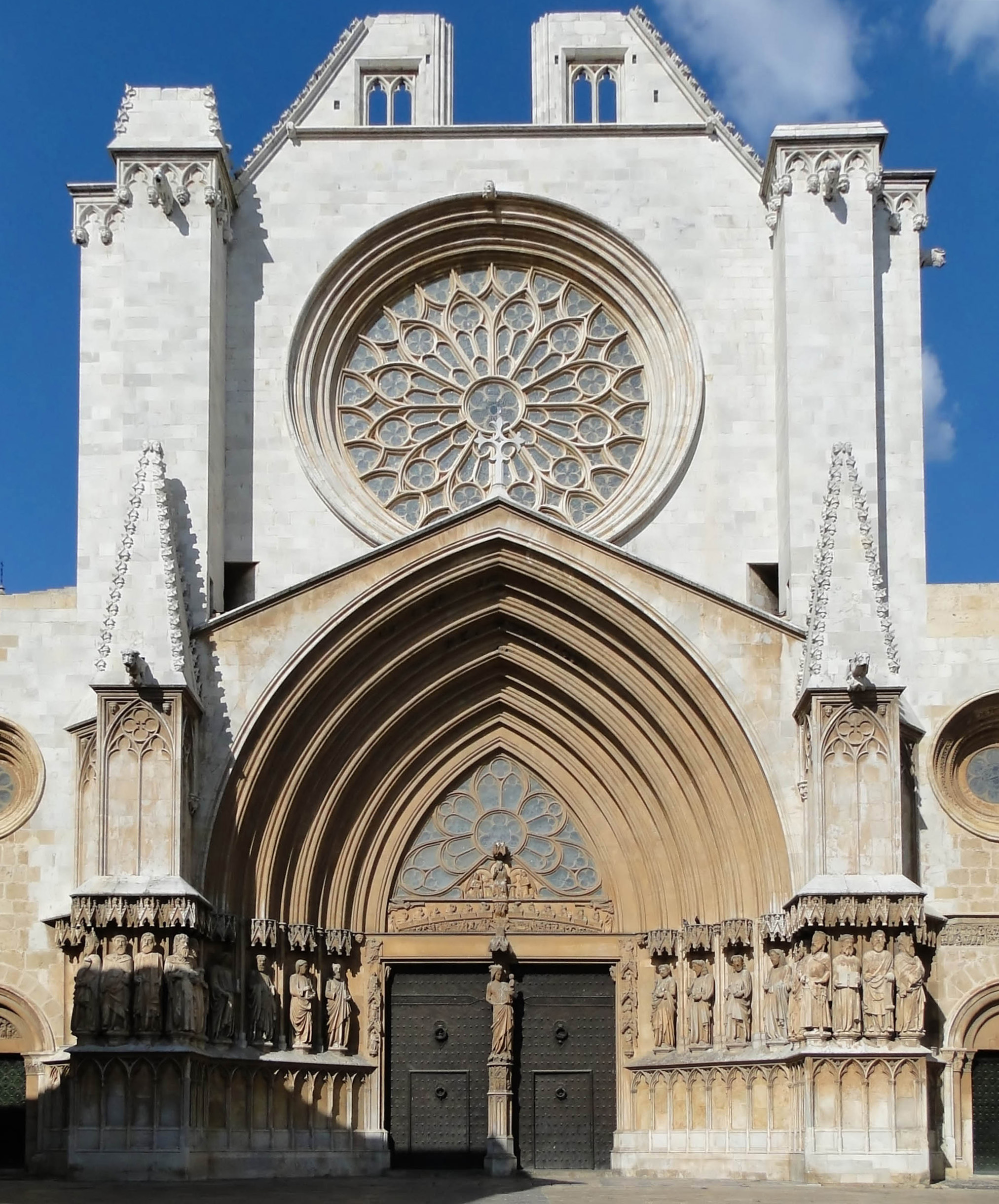 Facade of the Cathedral of Tarragona, Spain